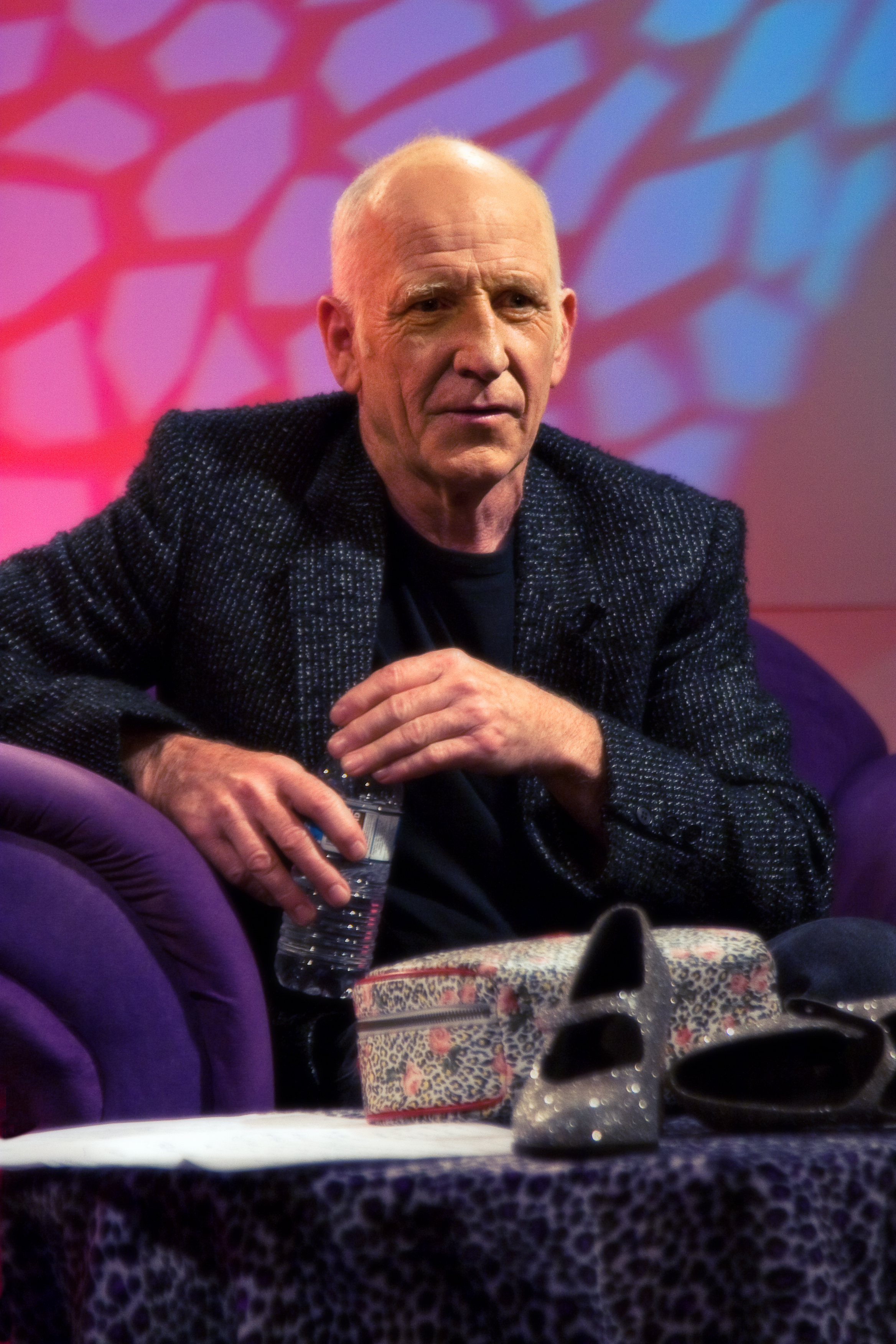 Australian actor Dennis Coard